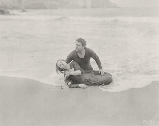 Louise Lovely and William Farnum in The Man Hunter - publicity still (original image damaged, modified)